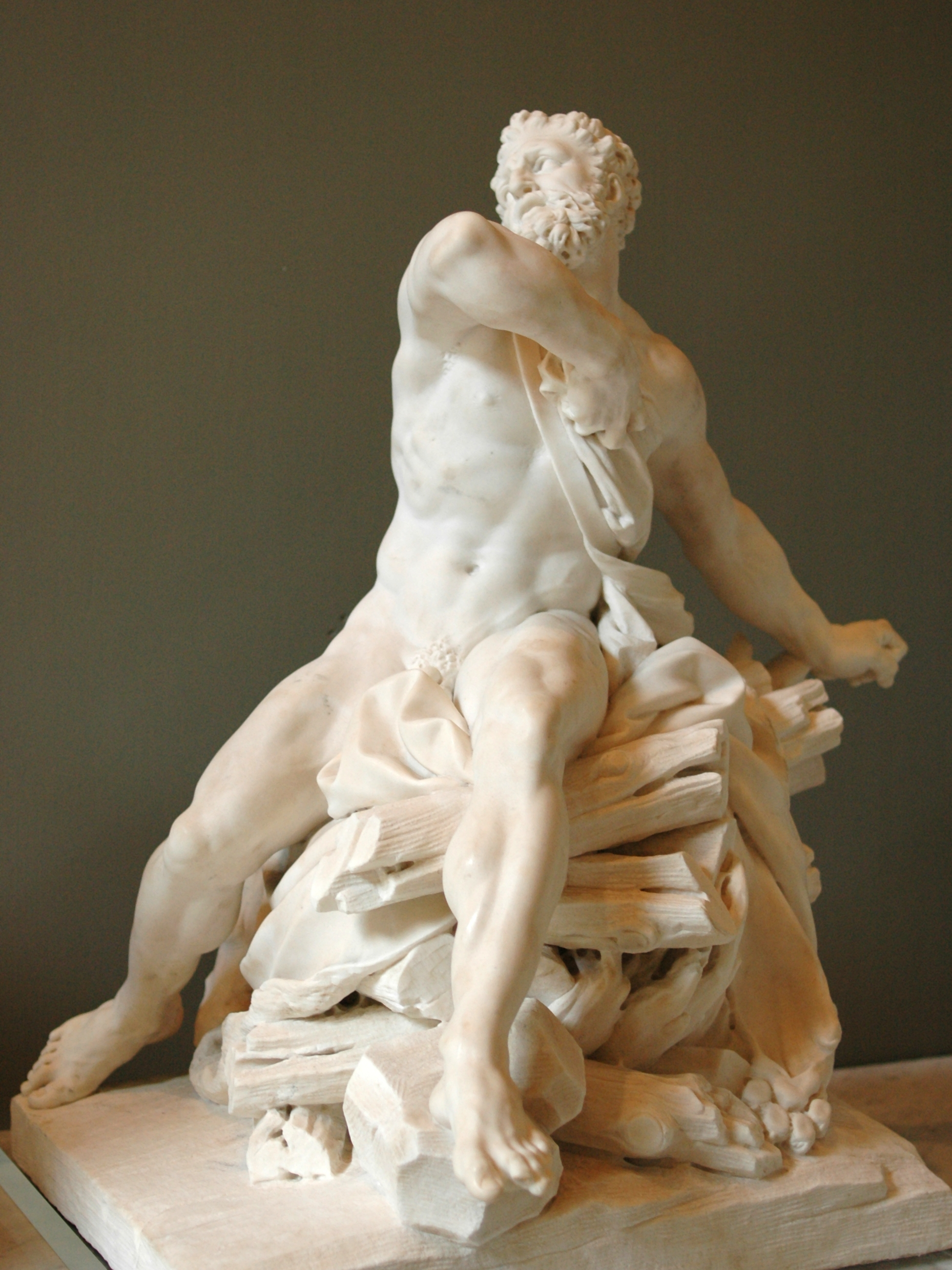 Hercules on the pyre, reception piece for the French Royal Academy.